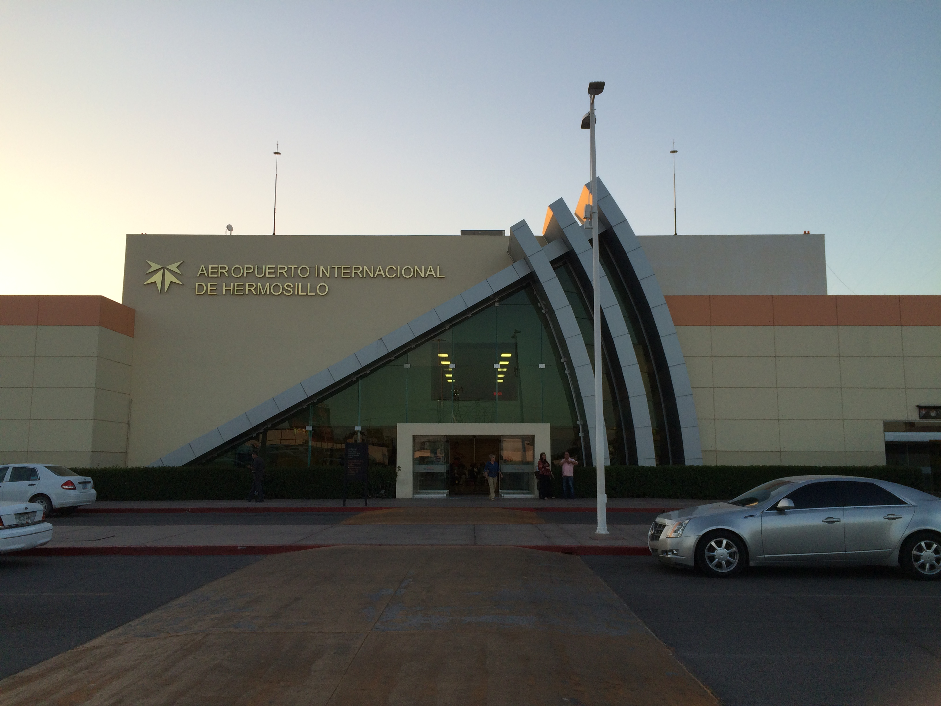 Airport's main entrance in Hermosillo, Mexico.